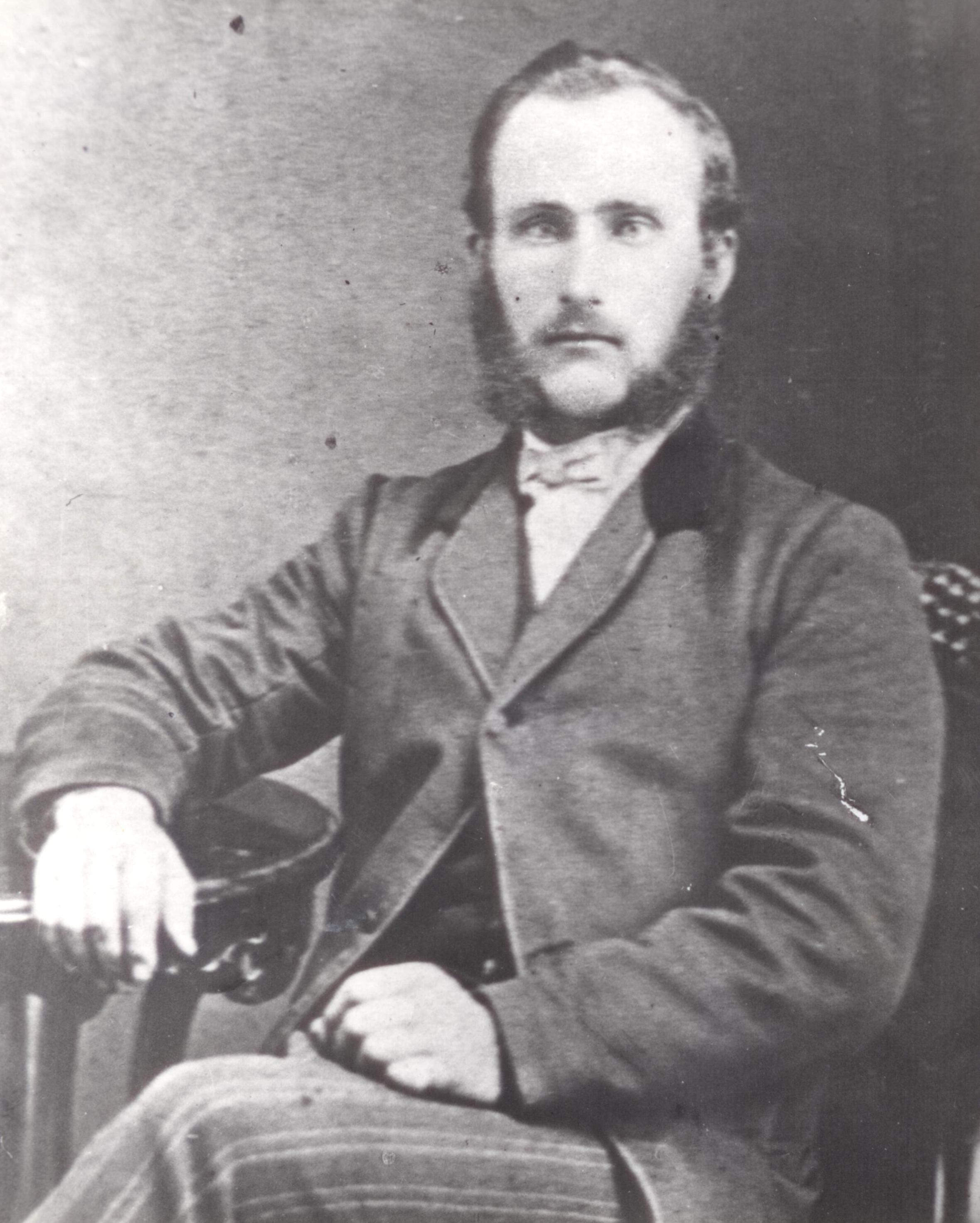 Matthew McCauley in his younger years.